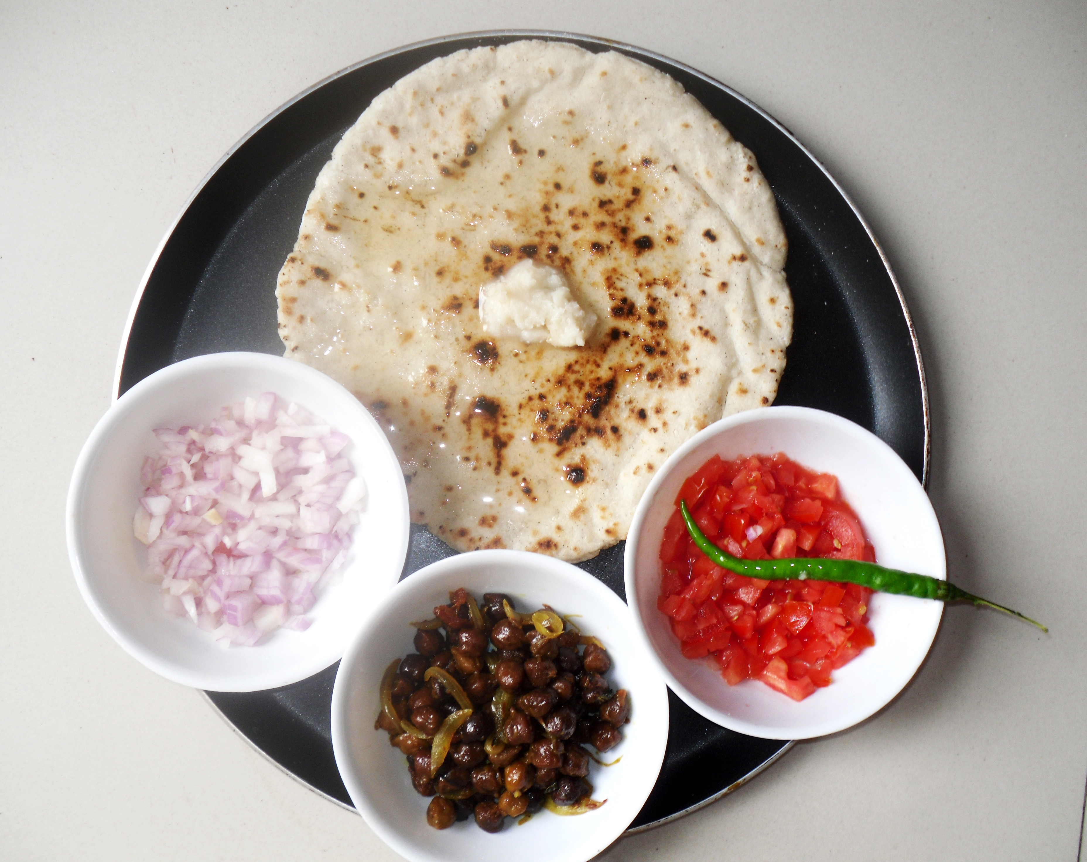 A Dish from Villages of Chhattisgarh India, Which is Also called "Chuni Roti", "Angakar Roti", "Khapurri Roti" in different areas of state. This is made by mix flour of Rice and Udad Dal, made in traditional chulha ( fire bhatti (stove) ) . This dish served hot with Ghee and any vegetable. very testy and yummy dish, which is very unique and traditional from old culture of Chhattisgarh.